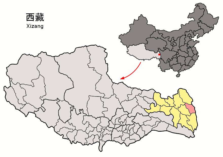 Location of Gonjo County (pink) and Qamdo Prefecture (yellow) within Tibet (Xizang) autonomous region of China